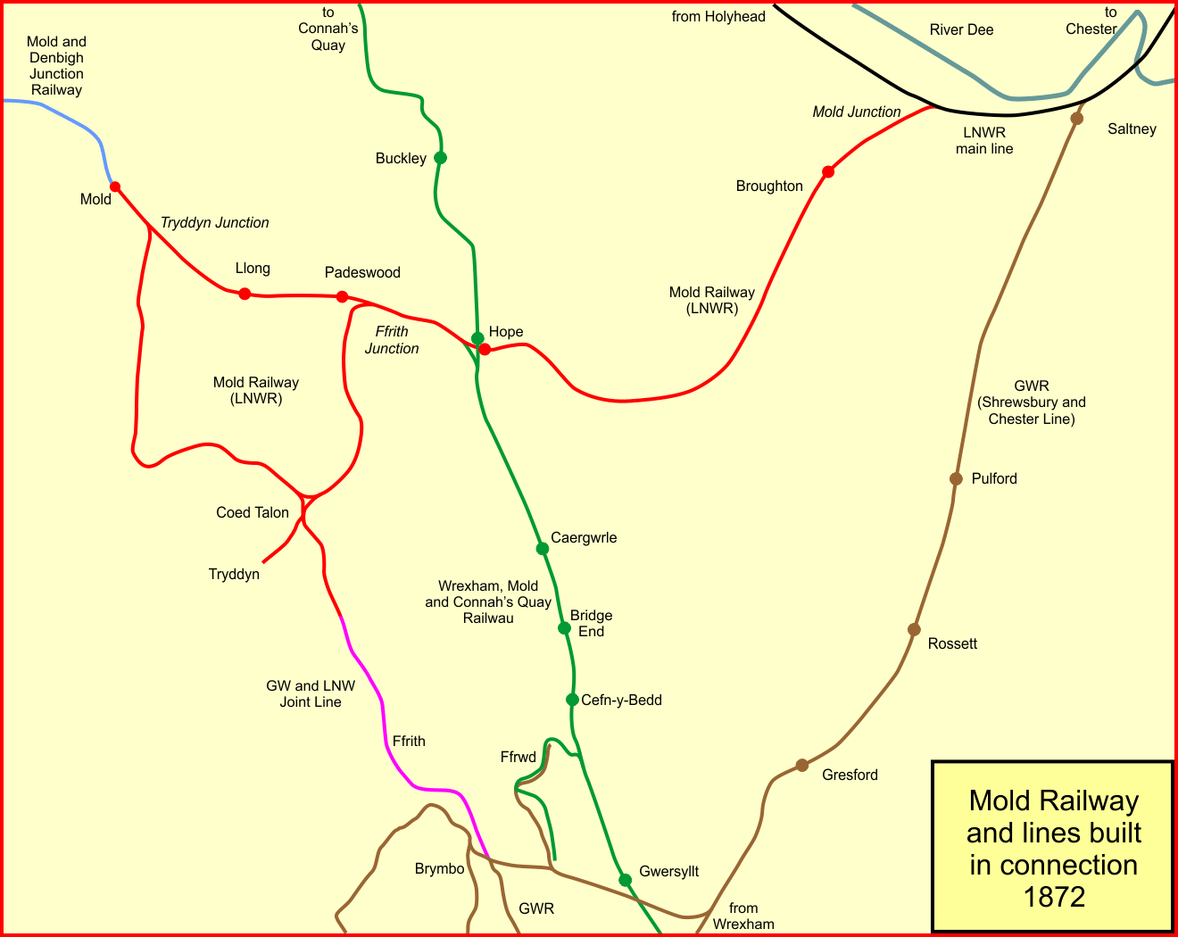 Diagram of the Mold Railway in North Wales in 1872